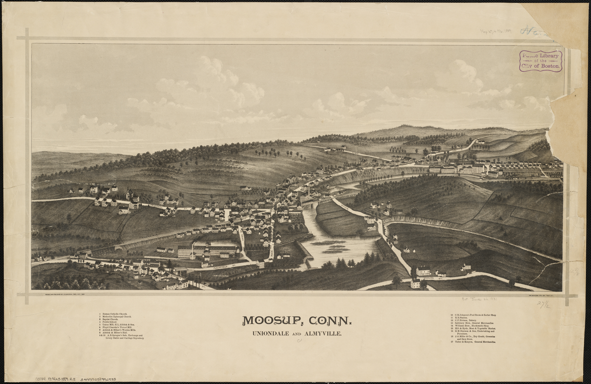 Zoom into this map at . Author: Burleigh, L. R. Publisher: L.R. Burleigh Date: 1889. Location: Moosup (Conn.) Scale: Not drawn to scale. Call Number: G3784.M74A3 1889.B8